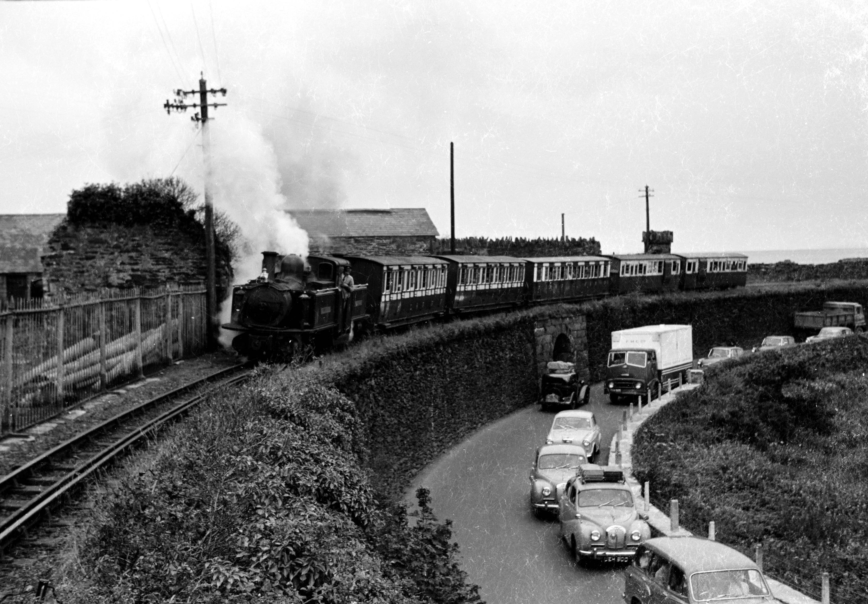 Earl of Merioneth aka Taliesin, originally built as Livingston Thompson at the end of the Cob at Boston Lodge